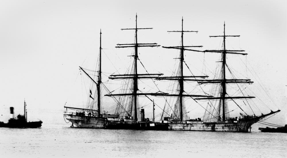 Hougomont (ship) The 'Hougomont' was built in 1897.